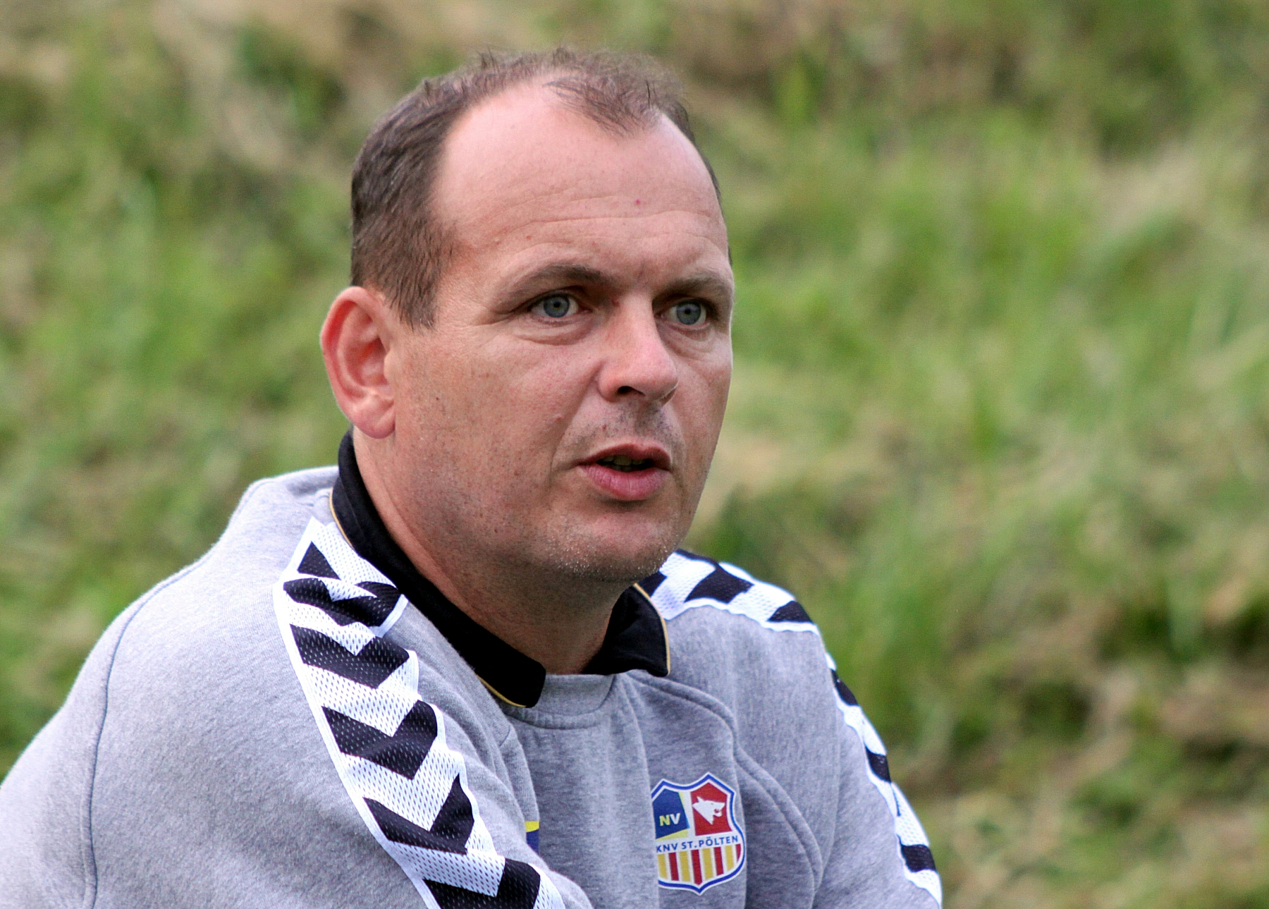 Martin Scherb, Headcoach - SKN St. Pölten (Austria)